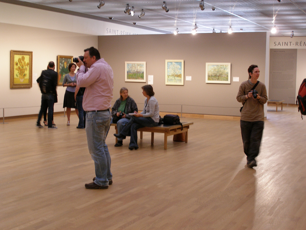 Interior Van Gogh Museum, during Wiki loves Art,- june 23 2009 Interior Van Gogh Museum, during Wiki loves Art,- june 23 2009